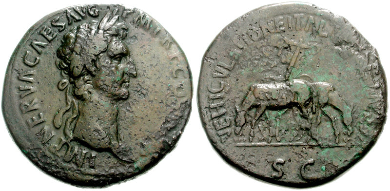 Nerva. AD 96-98. Æ Sestertius (34mm, 26.09 g). Rome mint. Struck AD 97. Laureate head right; VEHICVLATIONE ITALIAE REMISSA, SC in exergue, two mules grazing, one left and one right, cart with pole and harness behind. RIC II 93; BMCRE 119; Cohen 143; Banti 44.